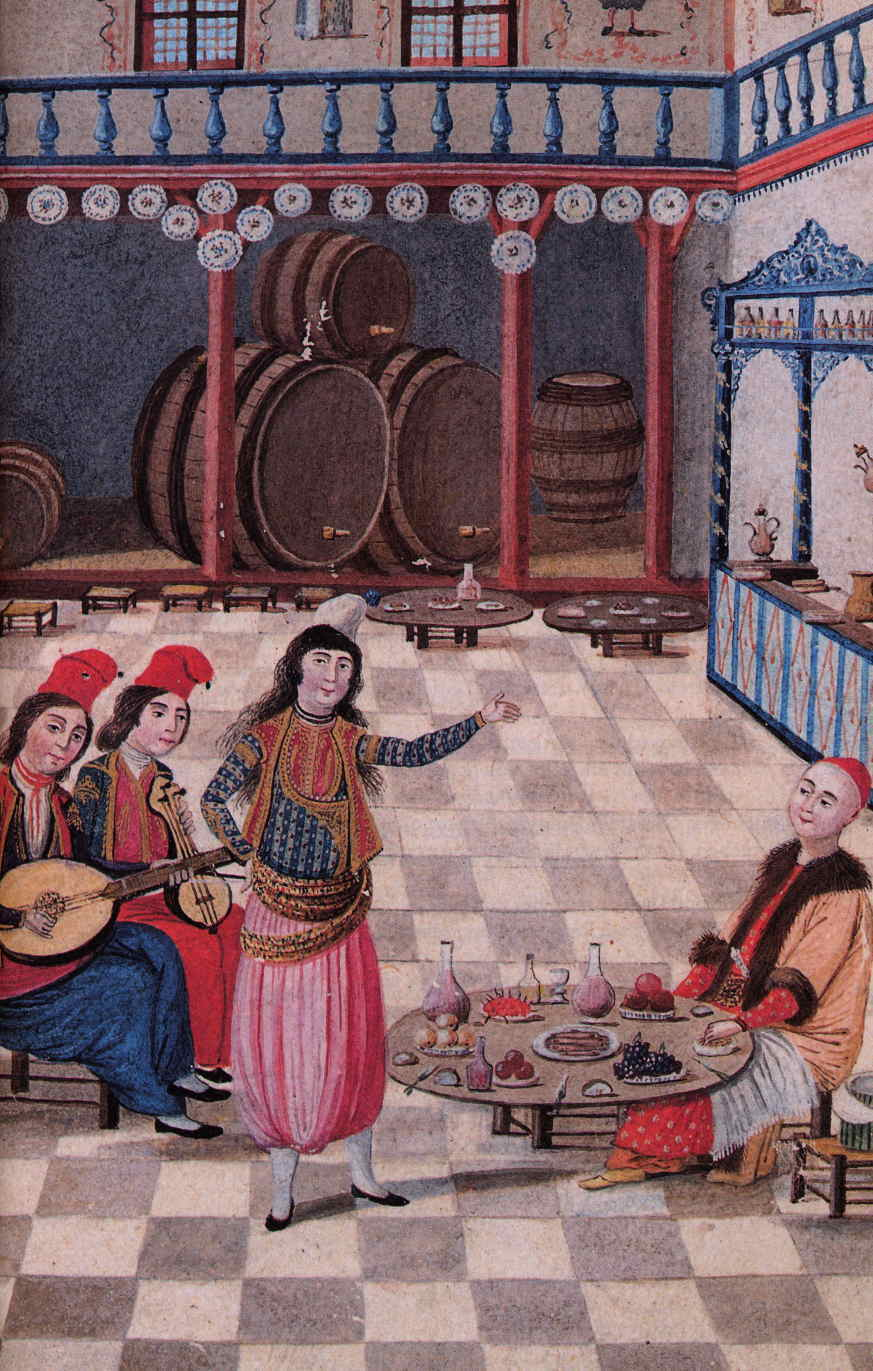 Illustration from the Hubanname (The Book of the Handsome Ones), 18th century artwork by the Turkish poet Fazyl bin Tahir Enderuni.